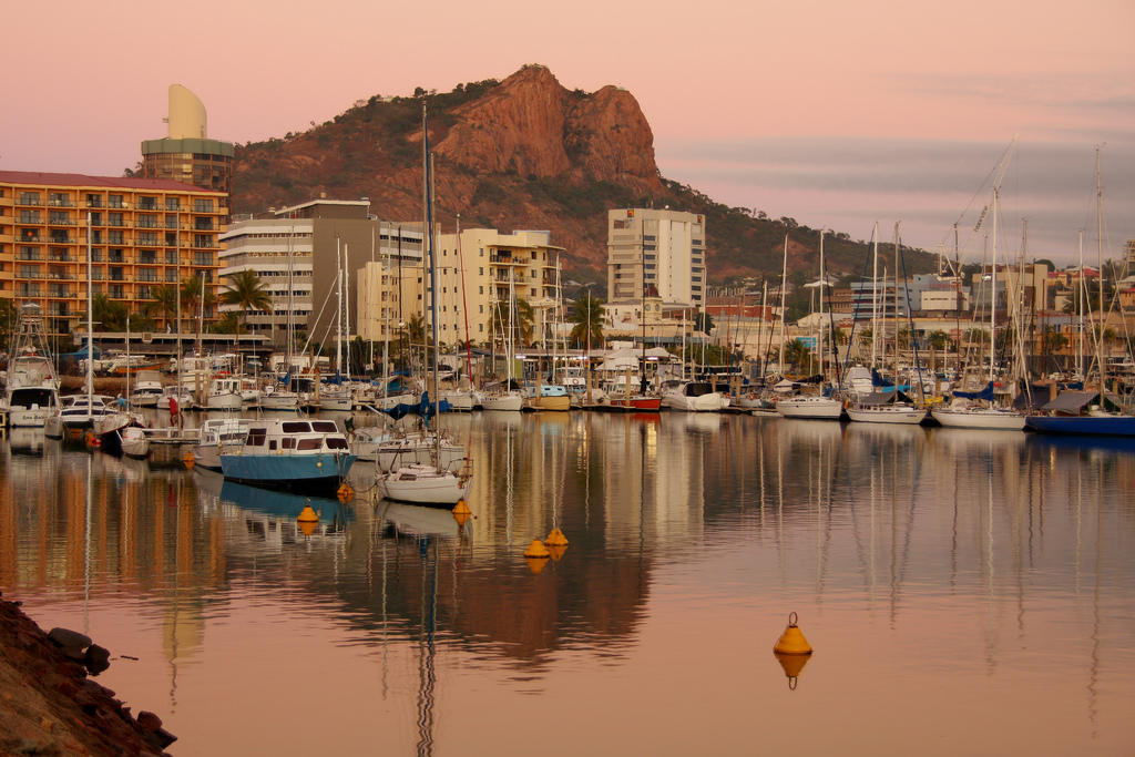 A view of Townsville CBD before a huge change in the cities Skyline.